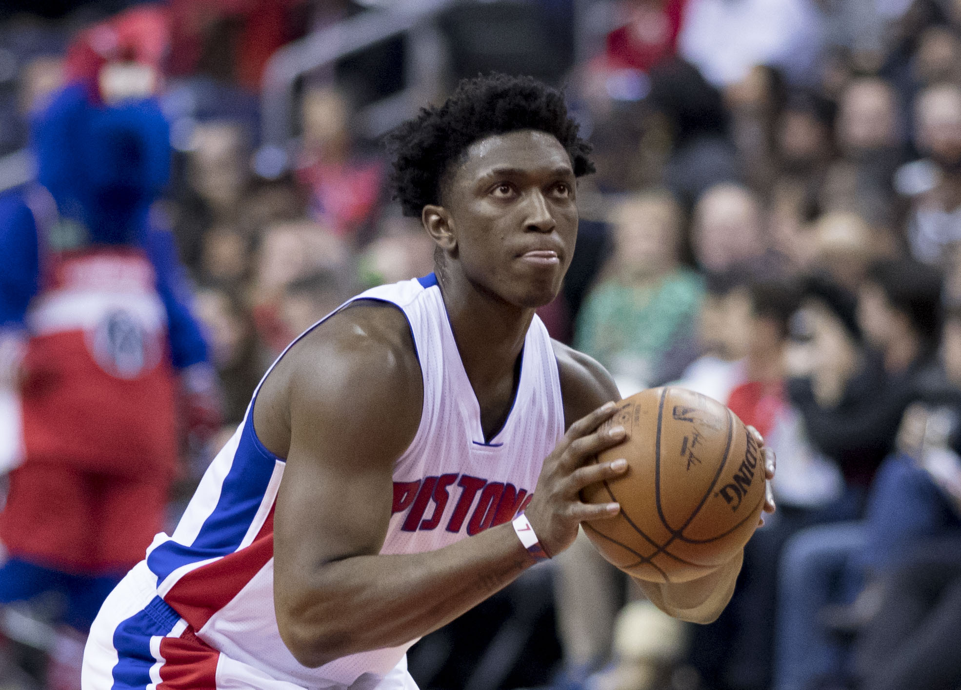 Pistons at Wizards 12/16/16